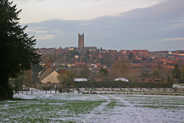 Ludlow from the south Viewed in evening light across a snow covered field near Ludford. In the middle distance can be seen Ludford Cemetery. The tower of St Laurence's Church is prominent on the skyline.